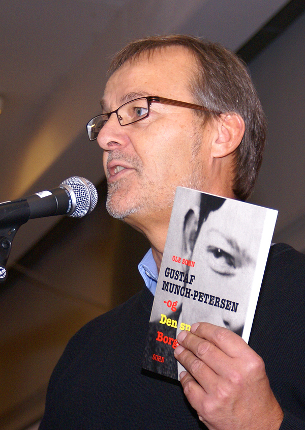 Ole Sohn, Danish writer and politician from Socialist People's Party (SF).